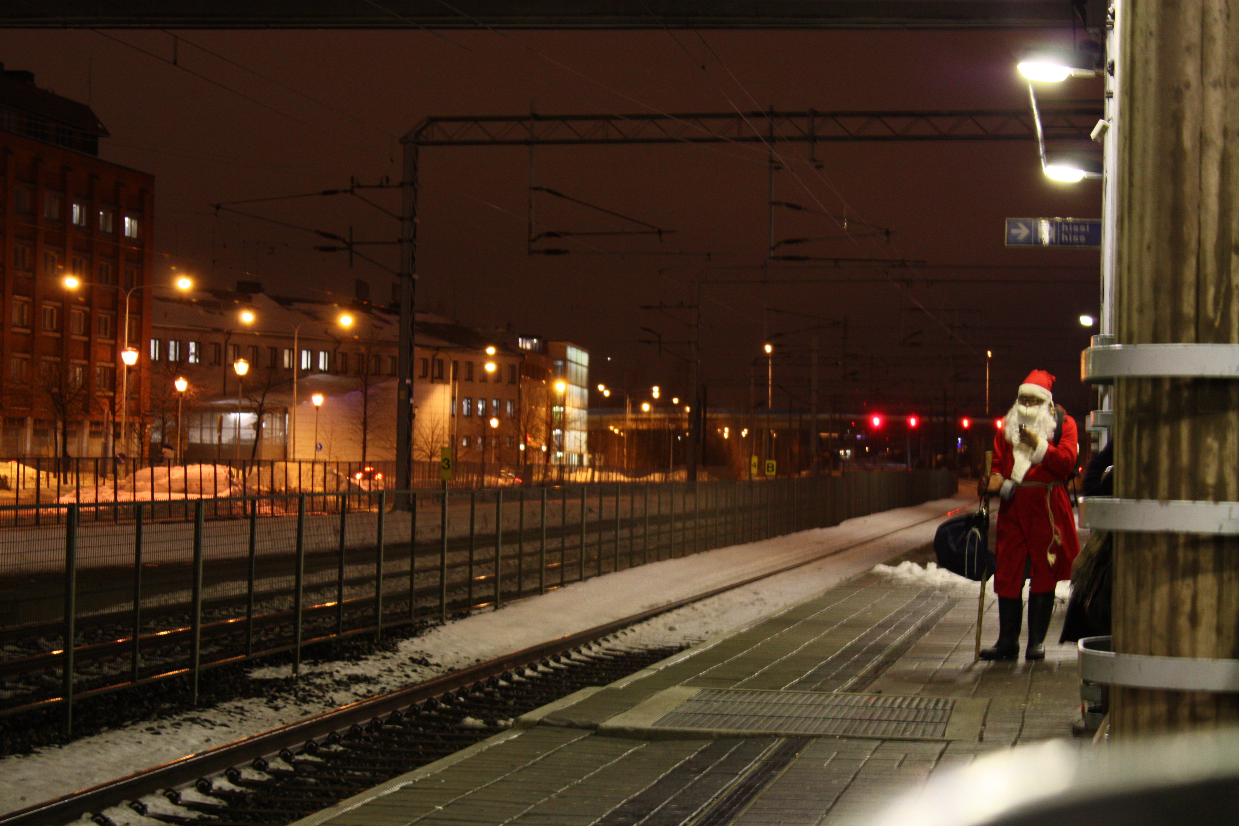 Santa Claus waiting for a train at the Malmi railway station in Helsinki, Finland